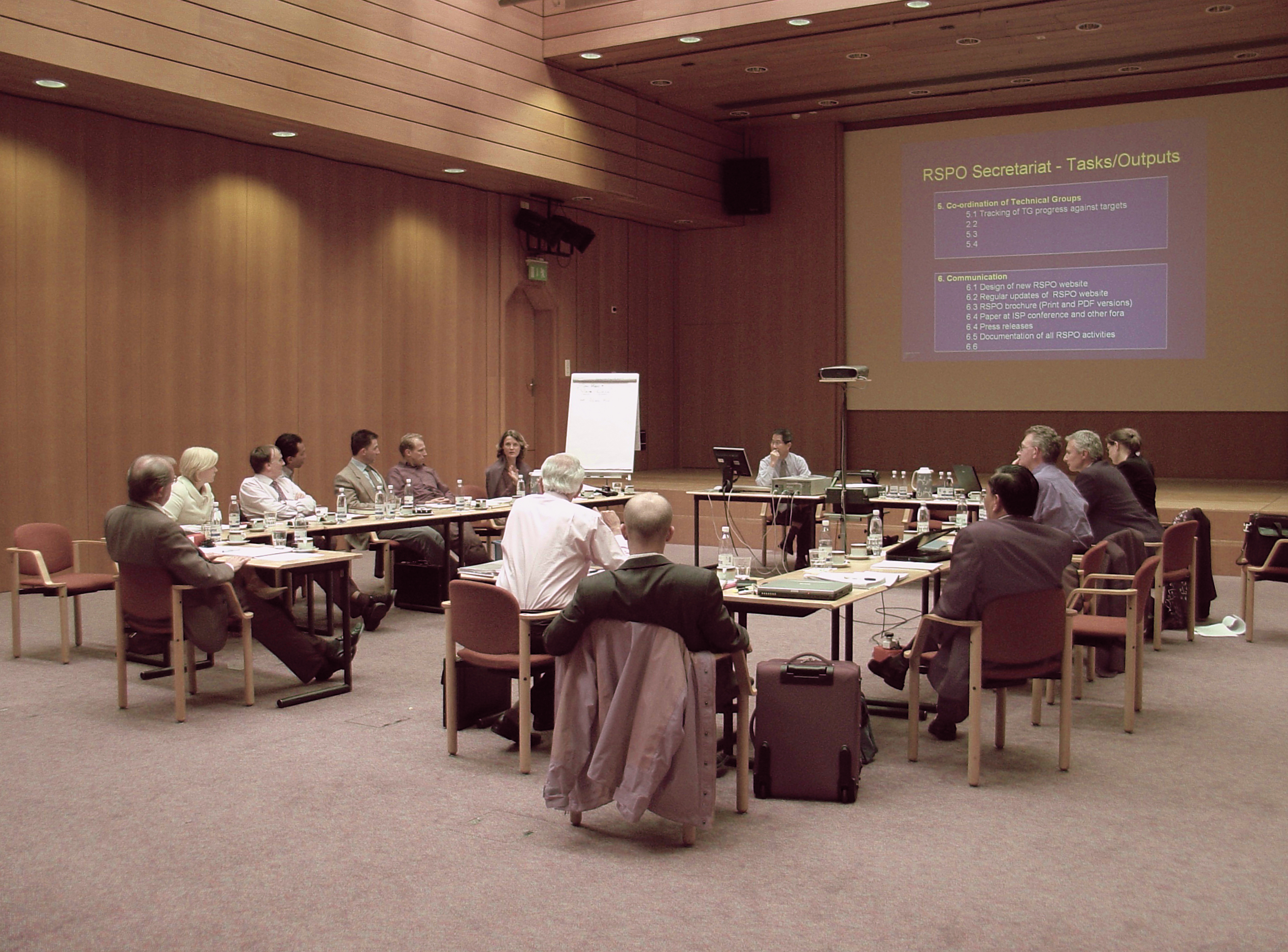 Picture of the RT2 (Roundtable No 2) in Zurich in 2005.